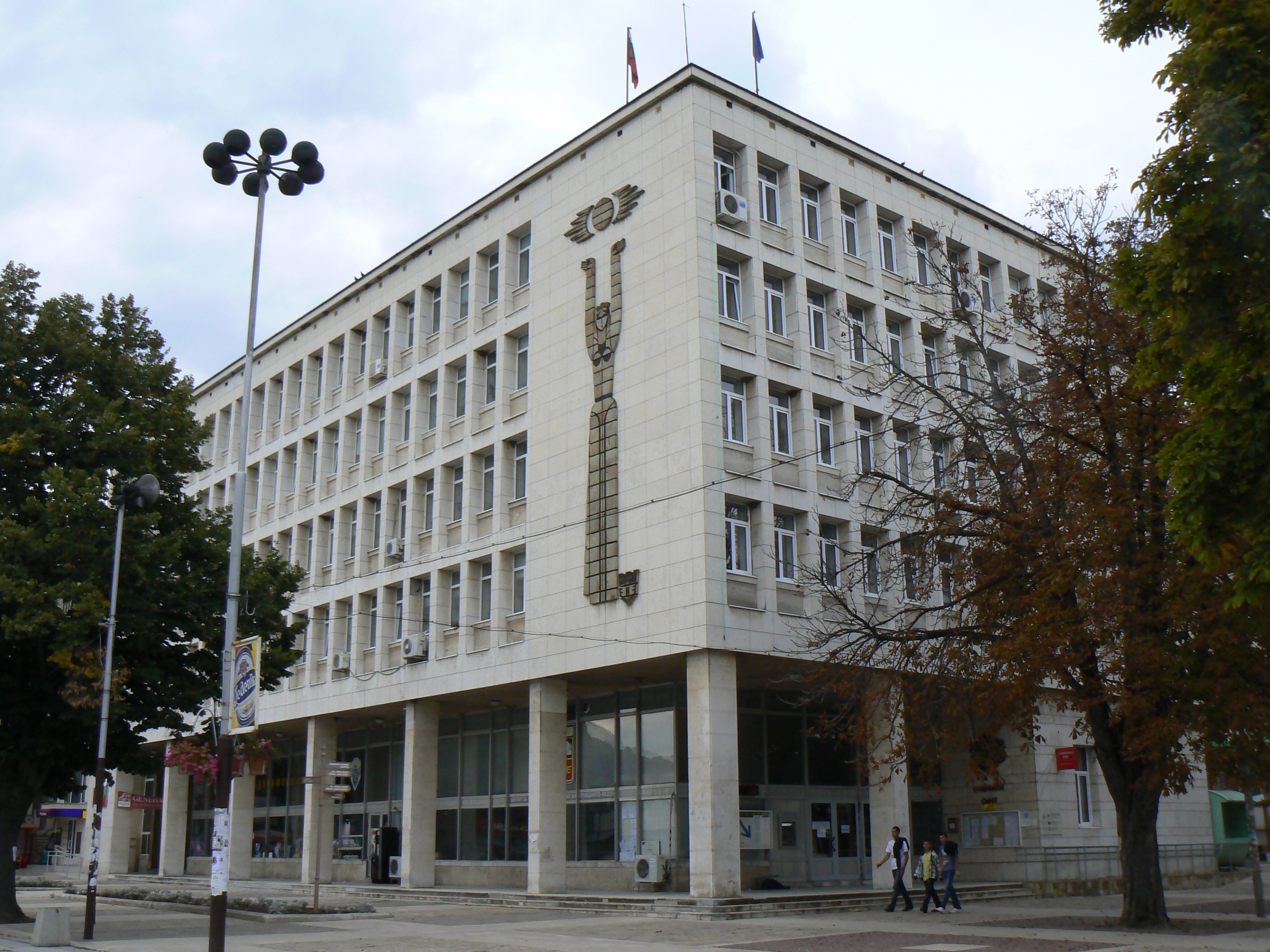 The building of Mezdra Municipality, Bulgaria